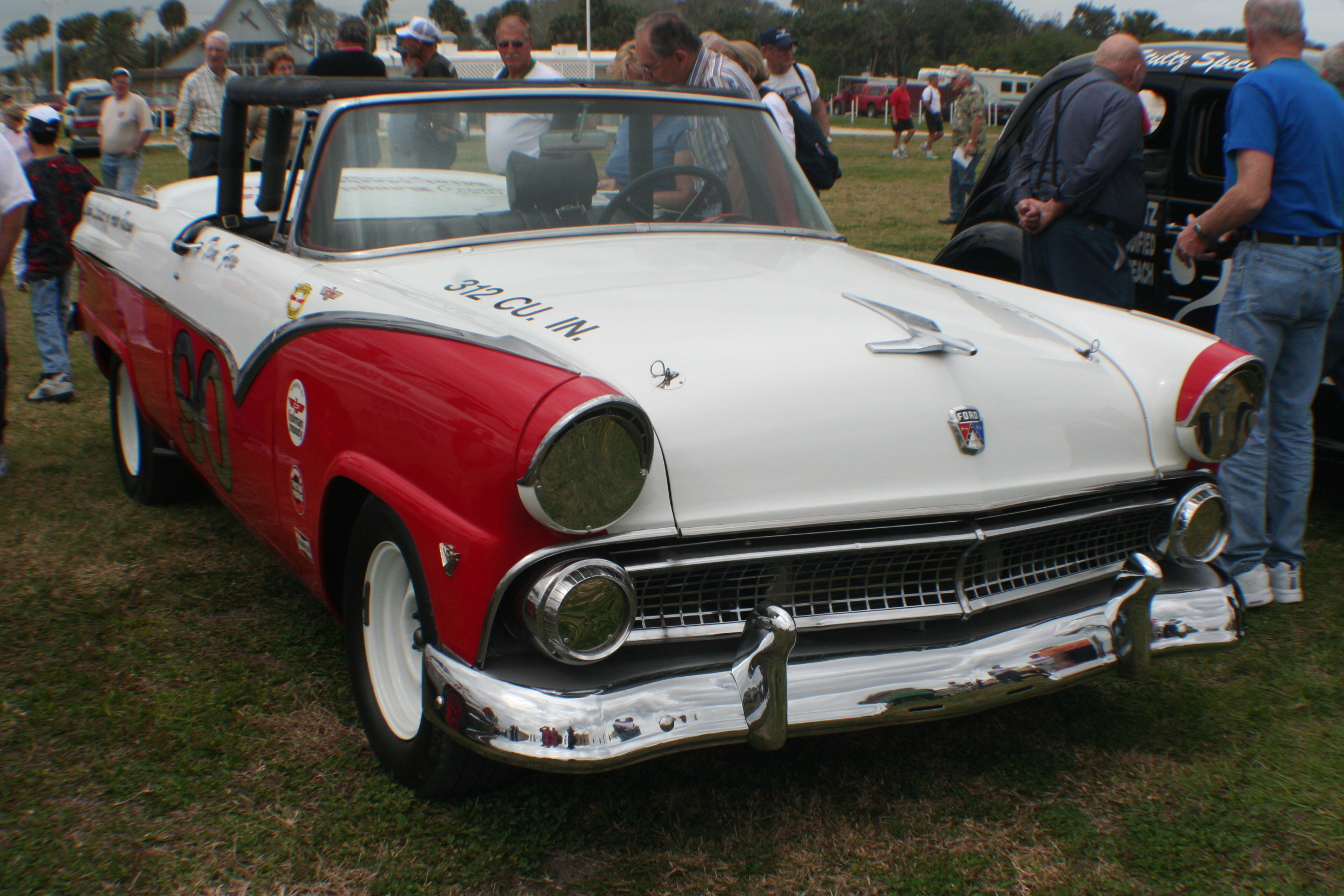 Shot by "The Daredevil" at Daytona during Speedweeks 2008Tim Flock Ford